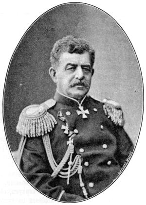 Lazarev, Ivan Davidovich (1820—1879) — российский генерал-лейтенант, генерал-адъютант.